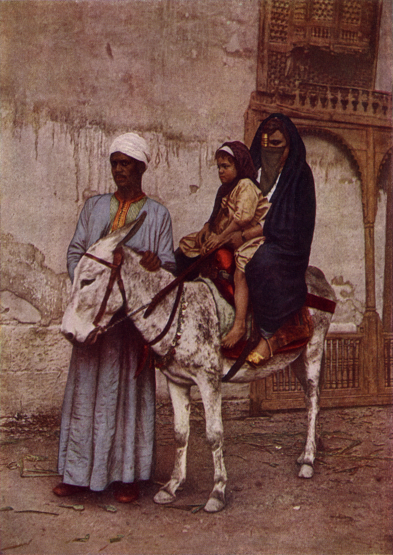 AN AUTOMOBILE OF THE ORIENT. The donkey is the patient burden-bearer of Northern Africa just as he is in many other parts of the world. He has carried heavy loads from time immemorial—both passengers and freight—and makes no protest until the accumulation of trouble swells his heart and he seeks relief through an impassioned bray.